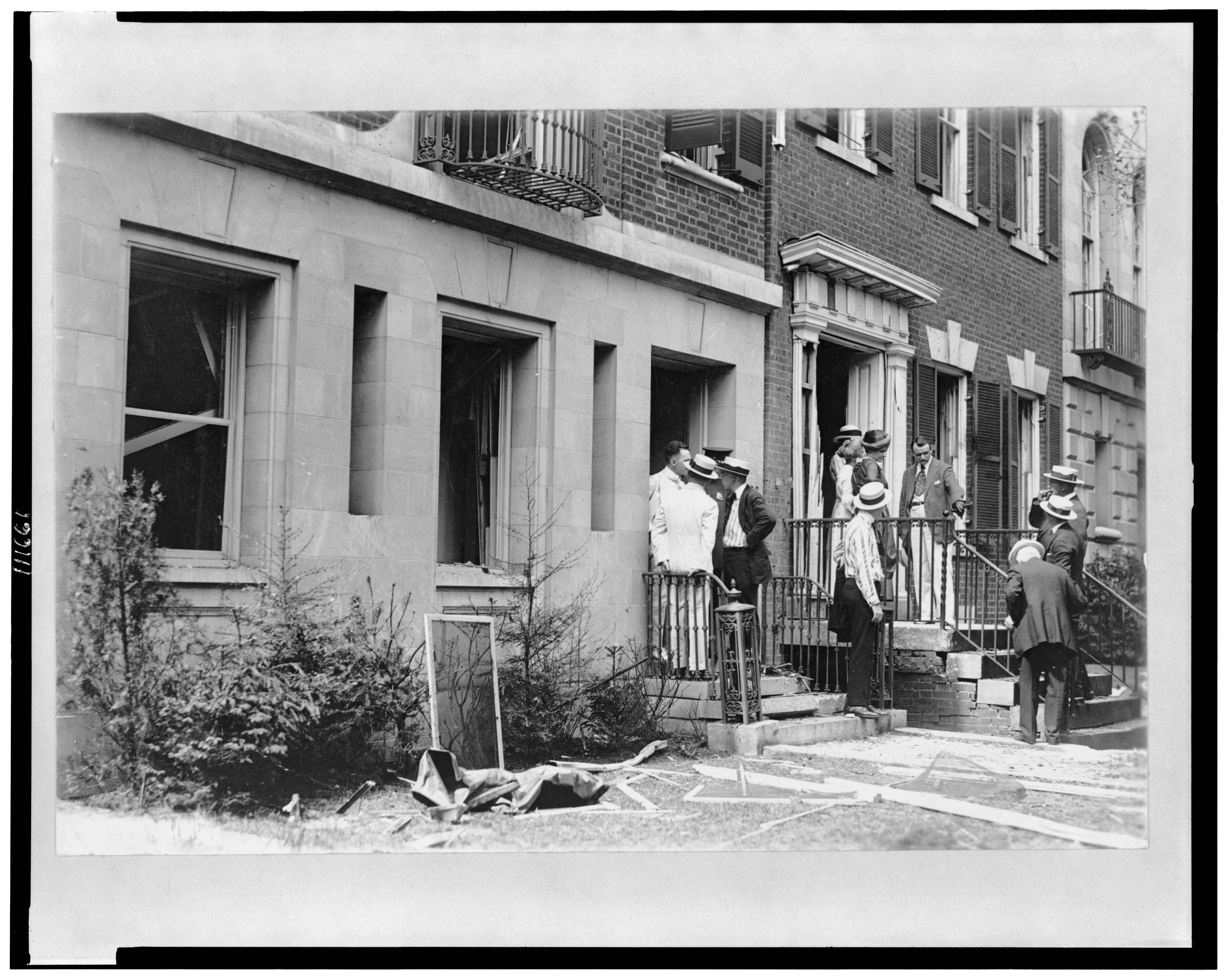 People gather outside Attorney General Mitchell Palmer’s house in Washington, D.C at 2132 R Street NW after a premature explosion killed the bomber and destroyed the home June 2, 1919